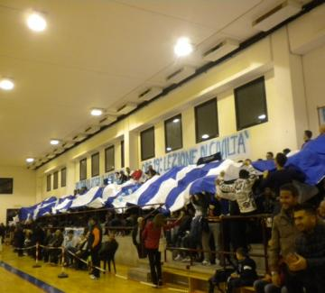 Coreografia dei tifosi della Junior Fasano